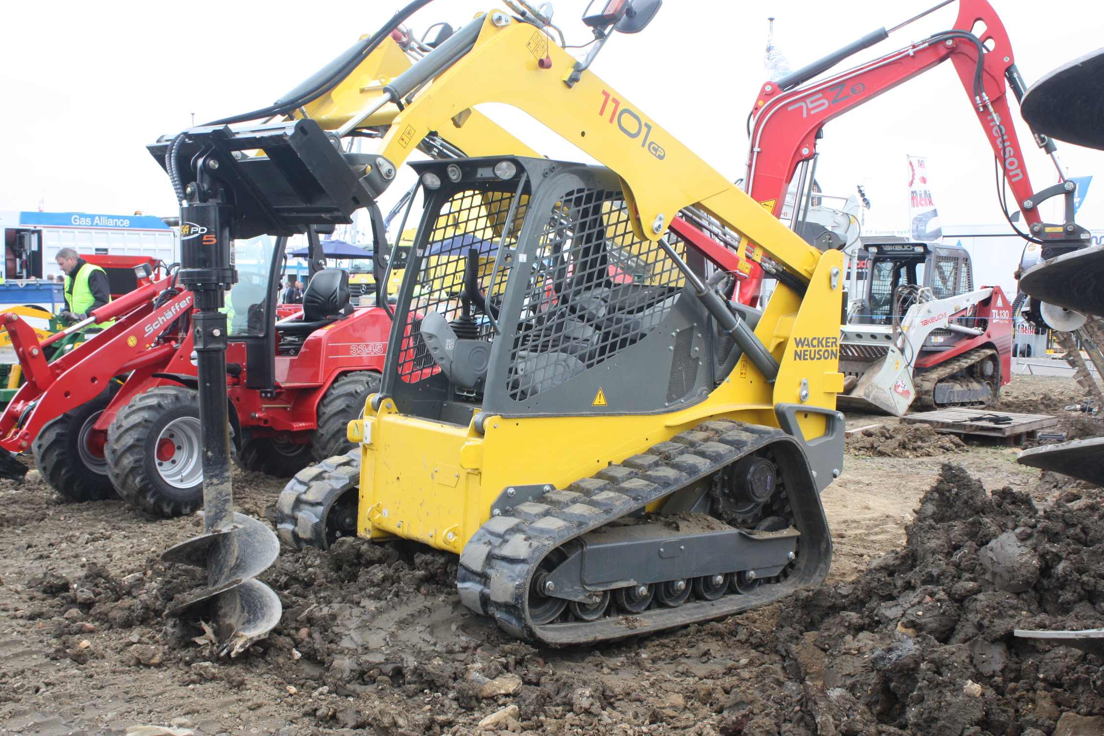 A Wacker Neuson 1101 CP compact tracked "skid-steer" loader fitted with hydraulic auger attachment at Site Equipment Demonstration (SED) 2009, Northamptonshire, England